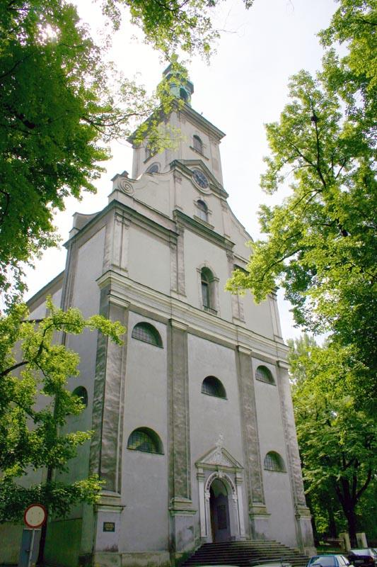 Jesus' Church (Church of Grace), Cieszyn (Poland)